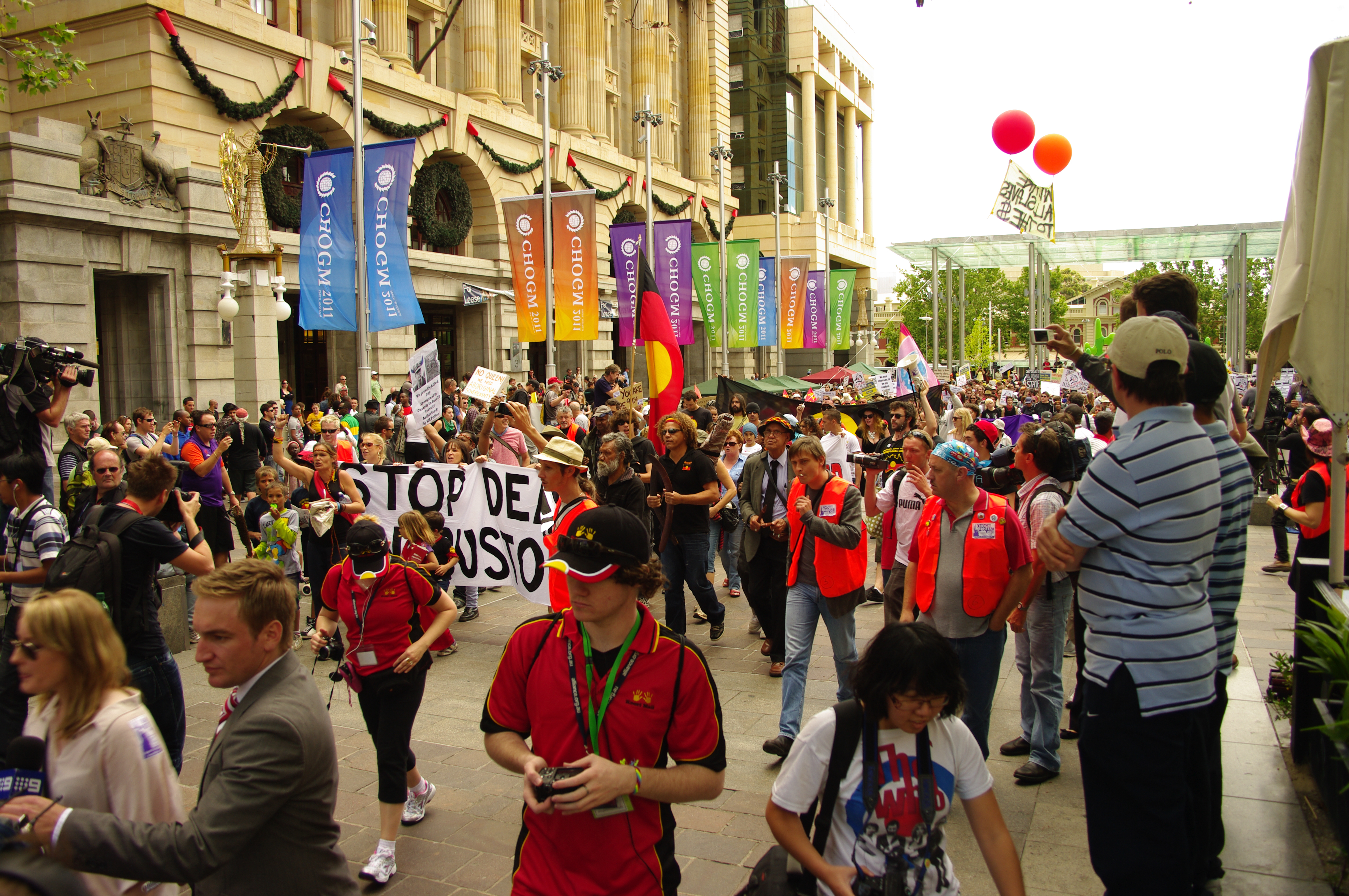 CHOGM 2011, protest that took place on the opening day